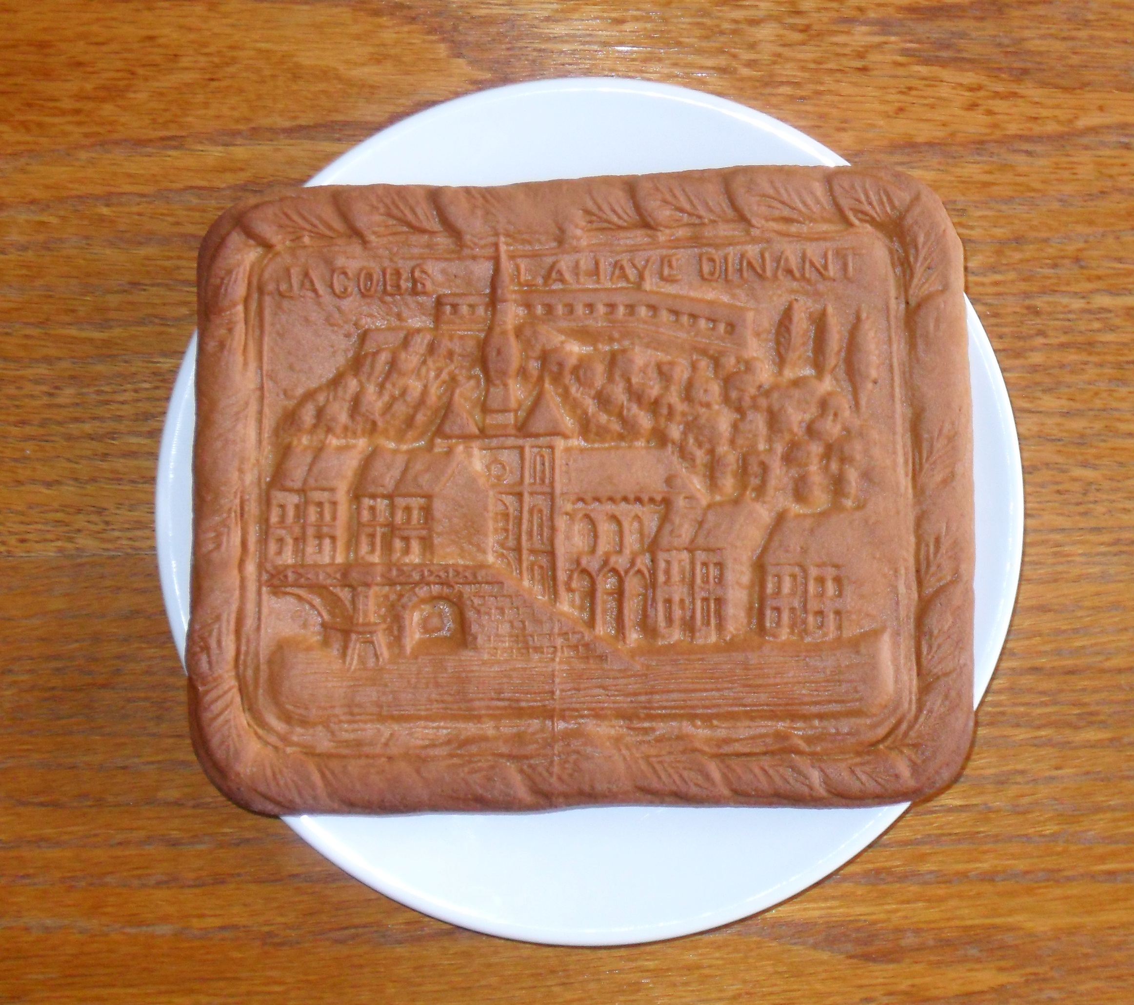 A couque de Dinant biscuit.